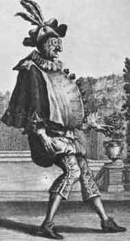 Costume design for the French ballet dancer Pierre Deschars as Pulcinella in the Divertissement de Villeneuve-Saint-Georges